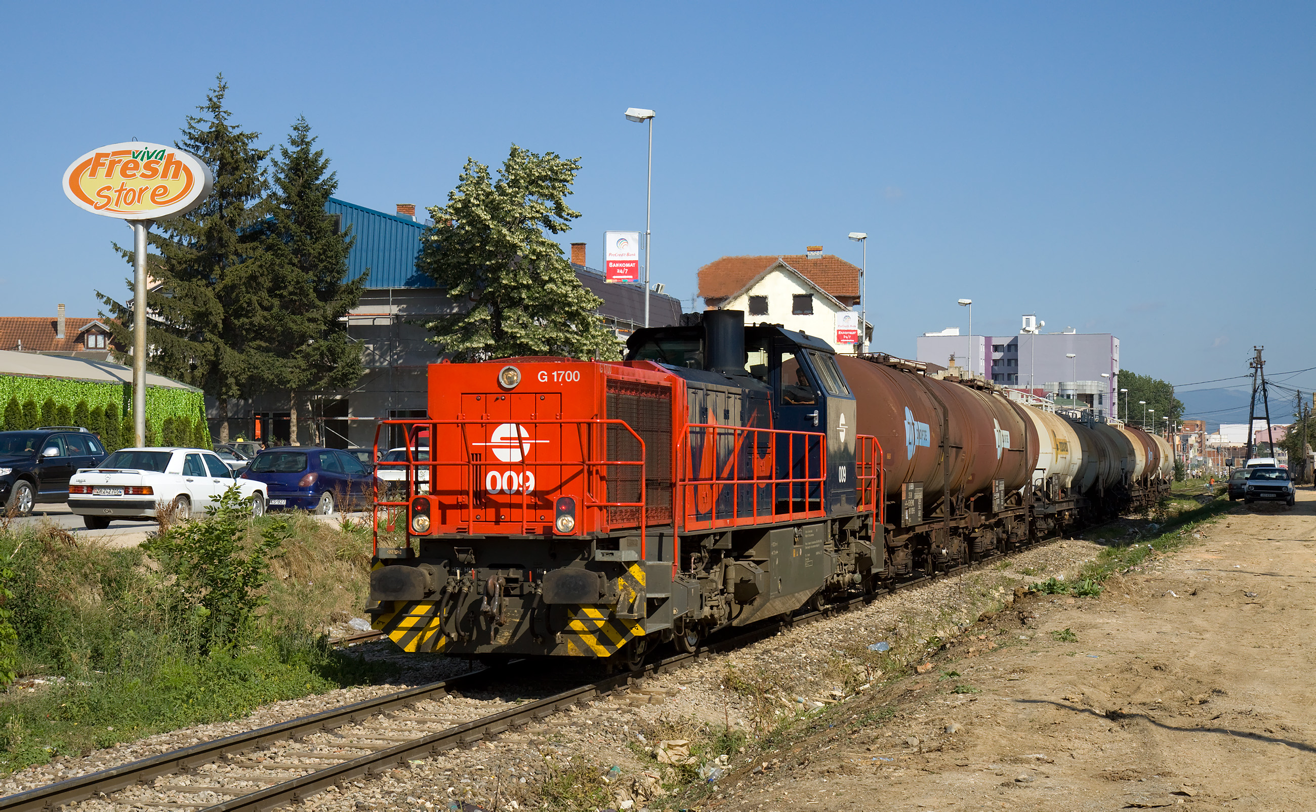 Kosovo Railways number 009, a new Vossloh G 1700, pulling a freight train through Ferizaj